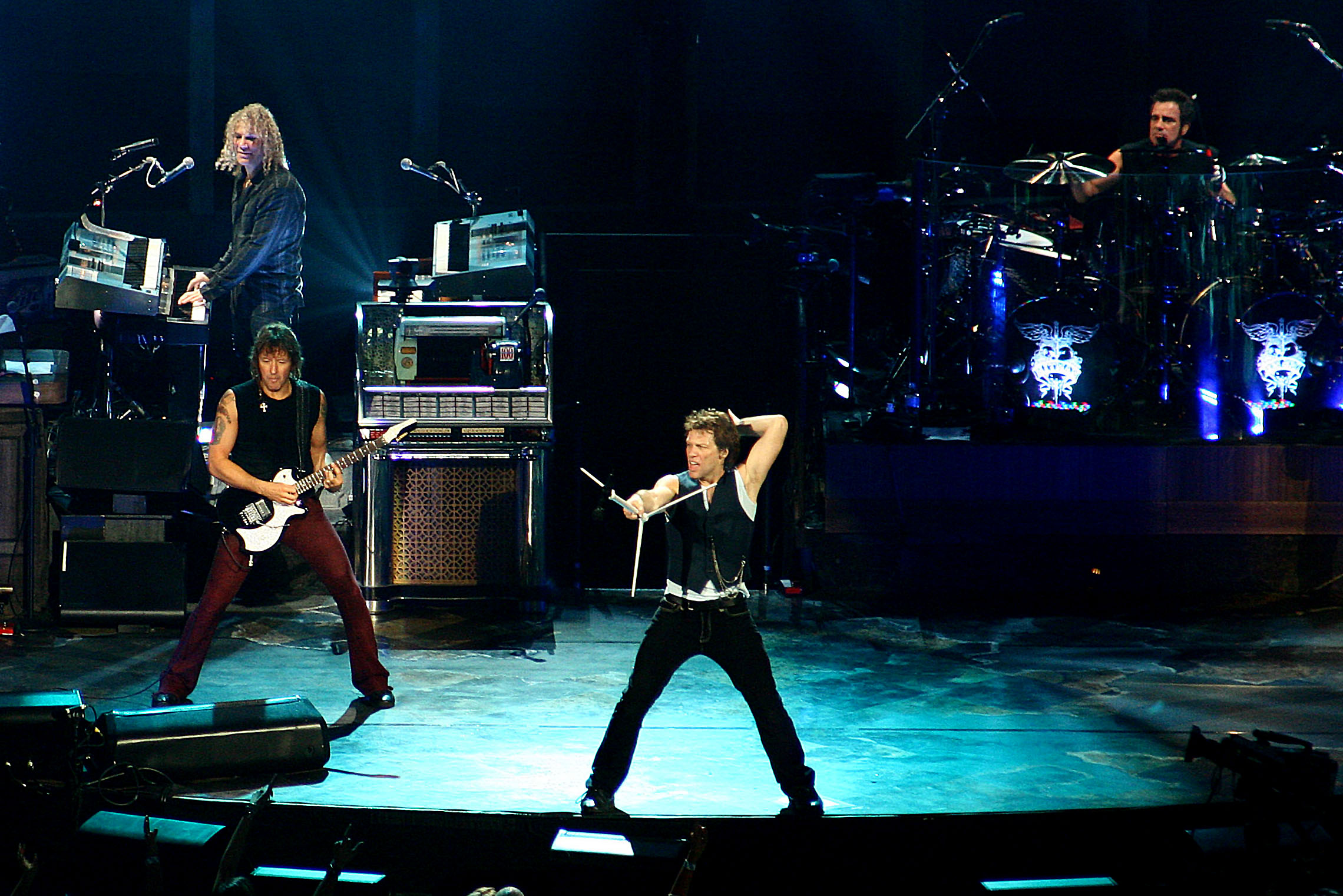 Bon JoviBon Jovi